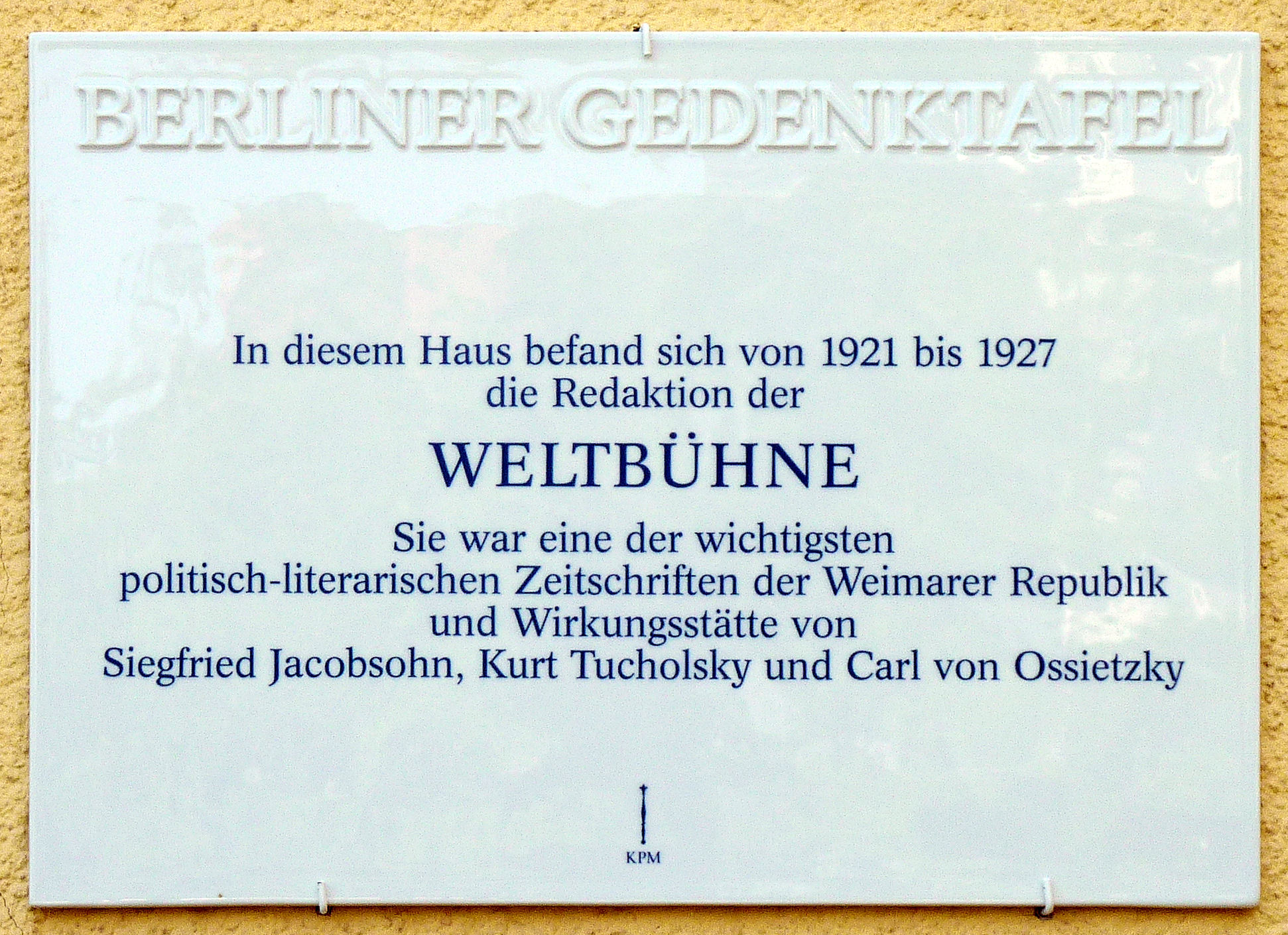 Berlin memorial plaque, Weltbühne, Wundtstraße 65, Berlin-Charlottenburg, Germany Koordinate:52°30′25″N 13°17′7″E / 52.50694°N 13.28528°E